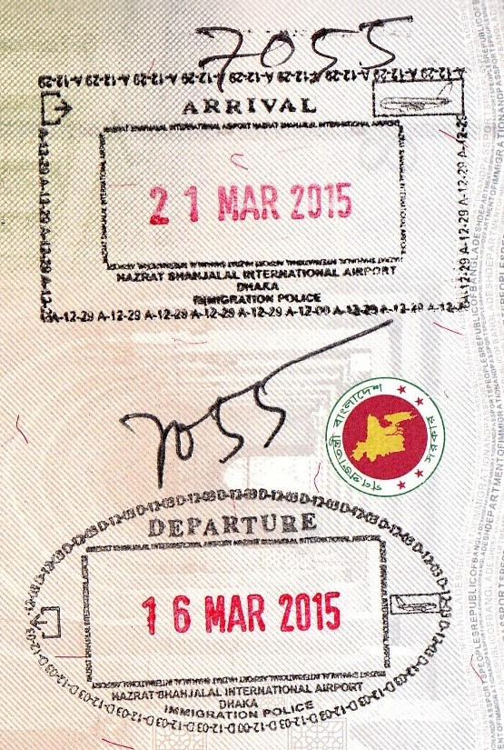 Entry and exit stamps at Hazrat Shahjalal International Airport on a Bangladeshi passport.